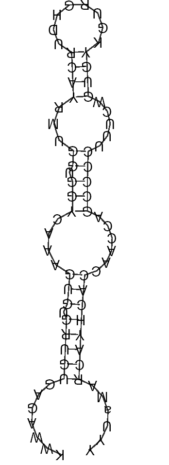 RNA secondary structure of TB6Cs1H1 generated by the WAR server( It is the consensus structure from several Trypansomatid species -Trypanosoma brucei, Trypanosoma brucei gambiense, Trypanosoma cruzi, Trypanosoma congolense, Trypansoma vivax